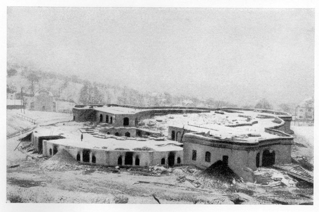 The ruins of the First Goetheanum with the figure of Rudolf Steiner